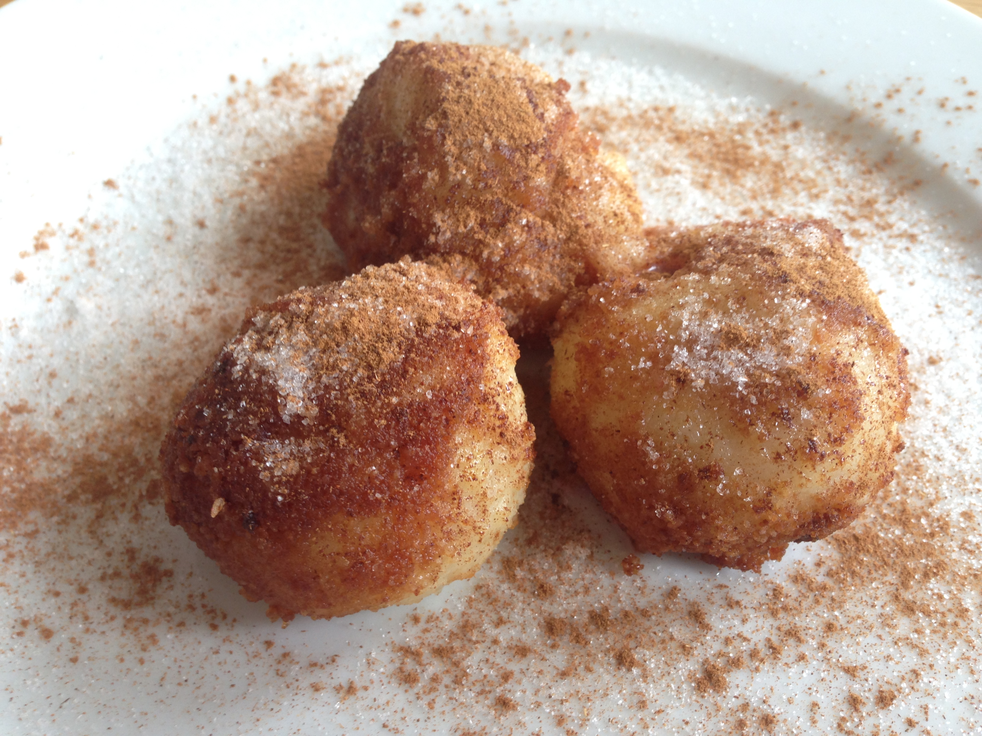 Plum Dumpling